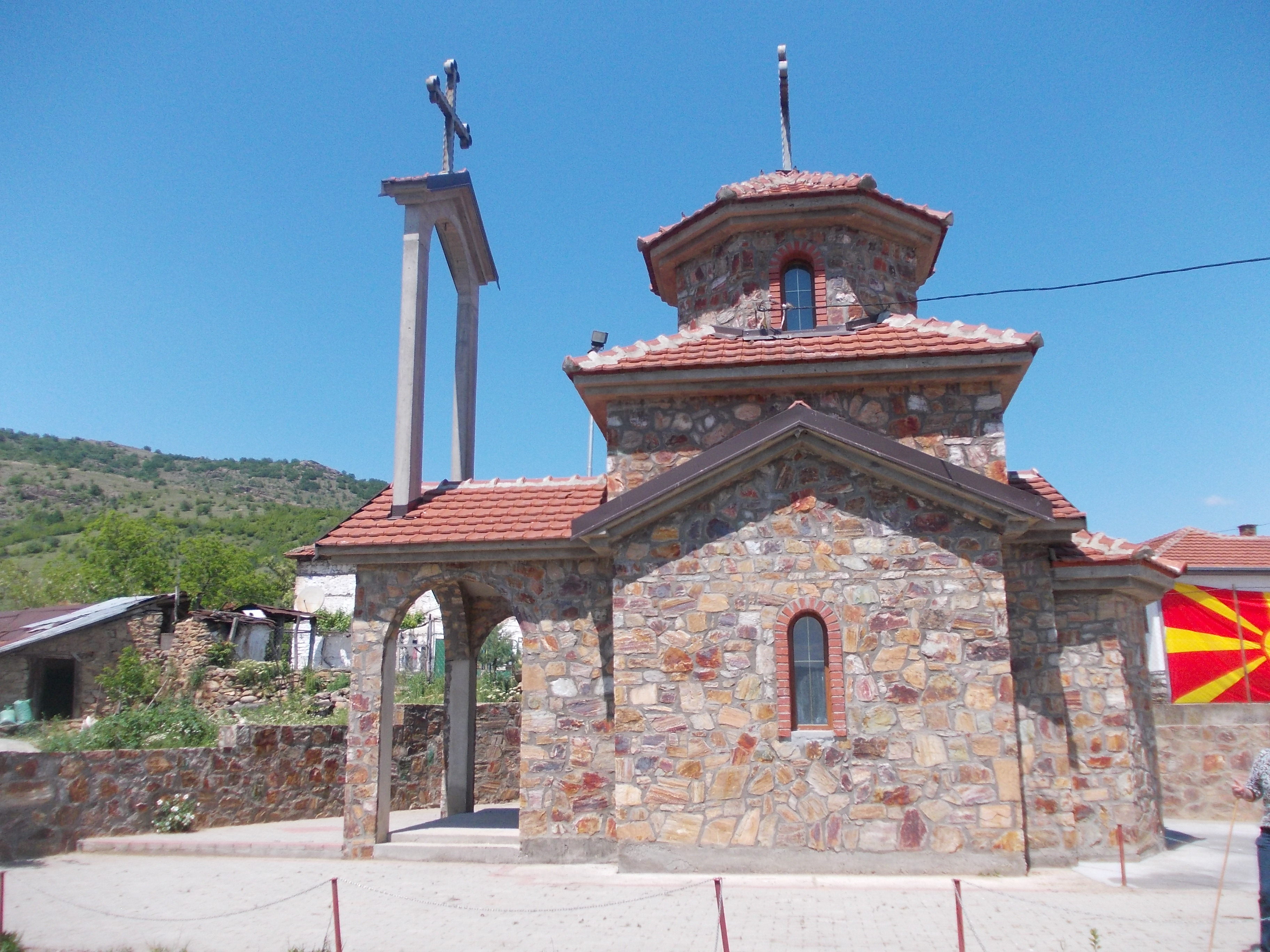 View of the St. Elijah Church in the village Martolci